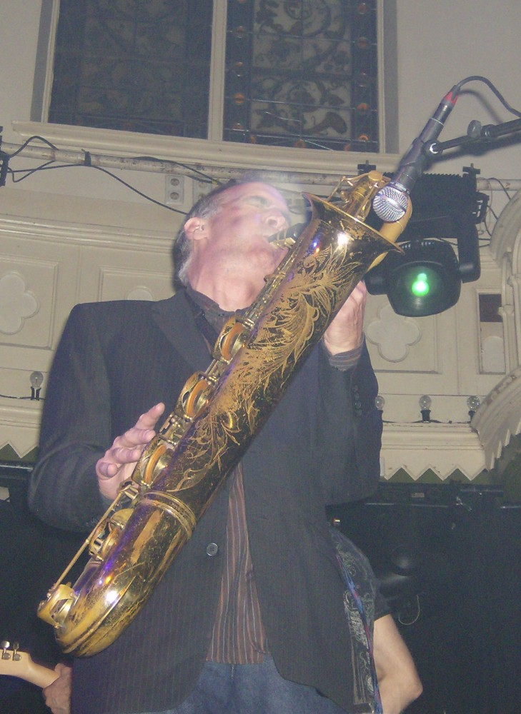 Eddie Manion, altsaxophonist with Southside Johnny and the Asbury Jukes, live in Amsterdam, October 5, 2007